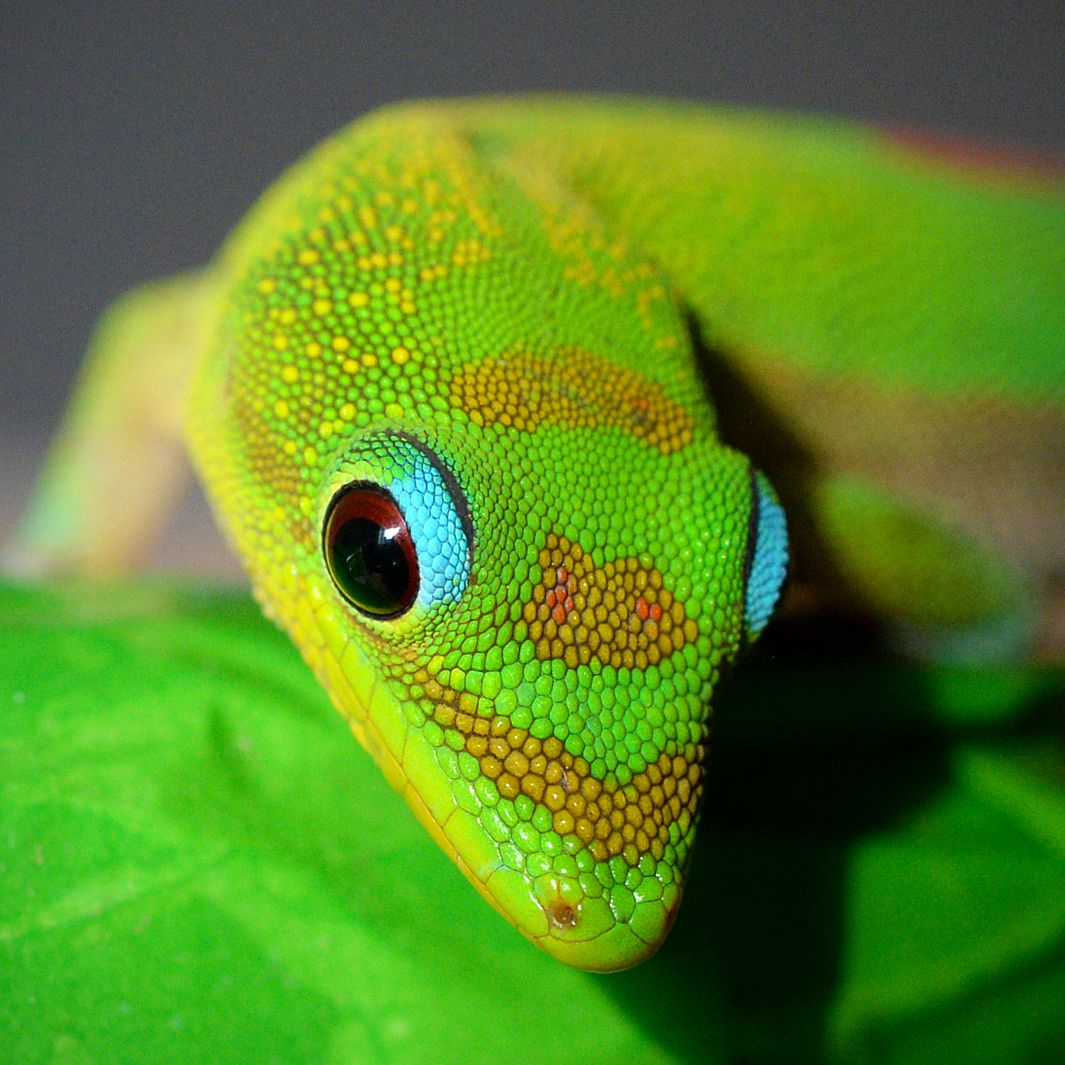 Gold Dust Day Gecko in Hawaii. Photo attribution must go to Steven H. Keys and